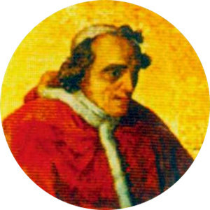 Portait of Pope Pius VII in the Basilica of Saint Paul Outside the Walls, Rome